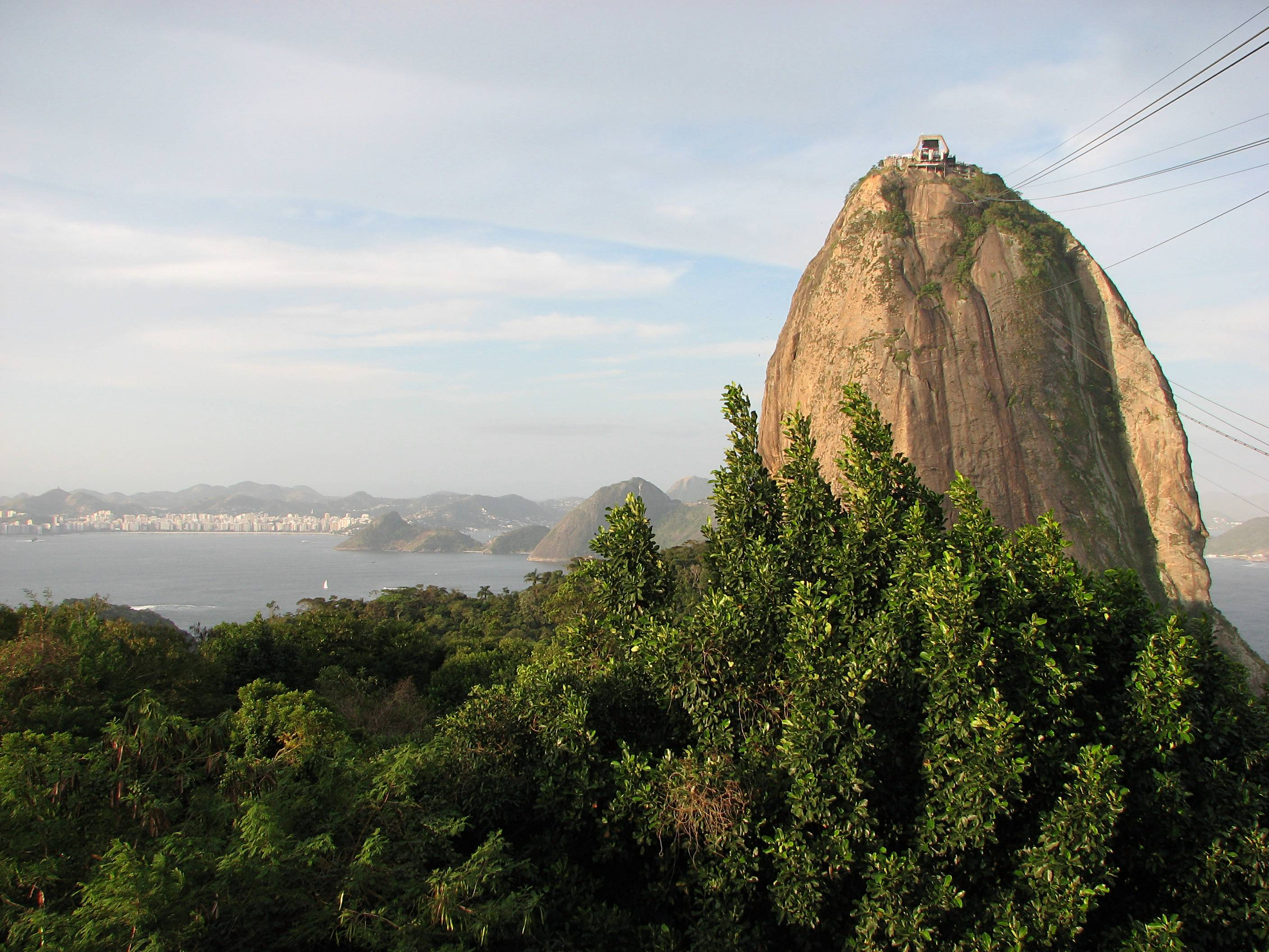 The top of Sugar Loaf, at a height of 396 meters - Urca - Rio de Janeiro - Brazil